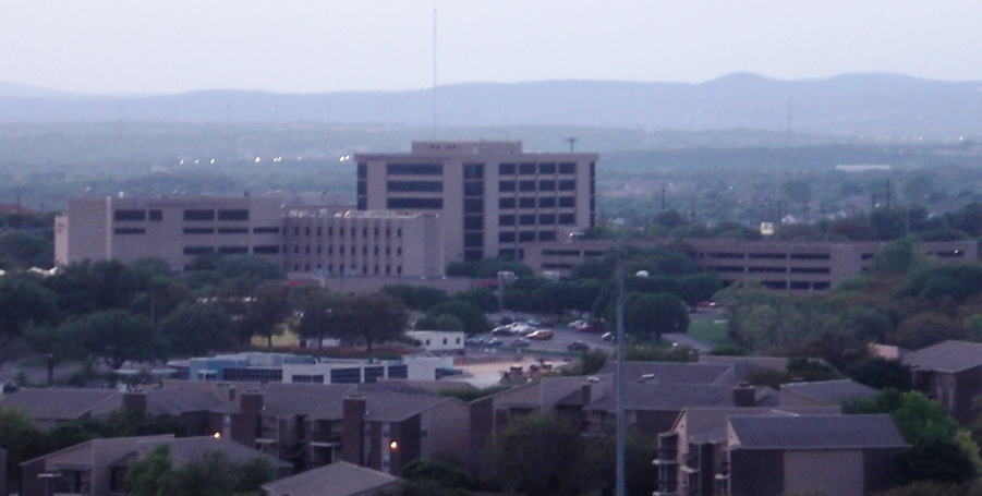 I am the photographer.--Zereshk 04:40, 3 April 2007 (UTC)